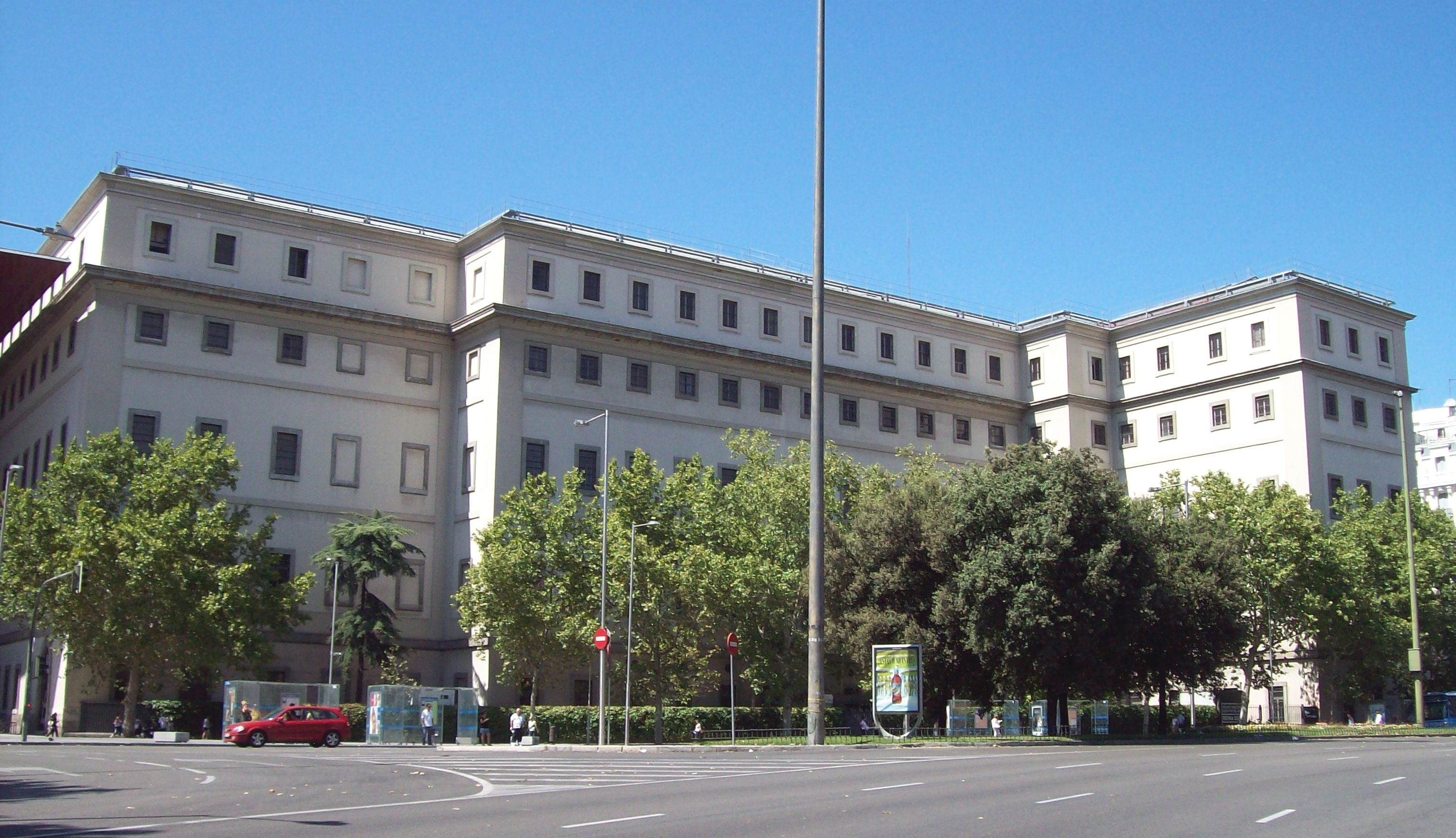 South-east façade of Queen Sofia Museum (MNCARS) in Madrid (Spain).